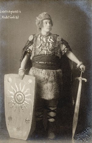 Latvian actor and opera singer Ādolfs Kaktiņš (1885-1965) as Lāčplēsis.